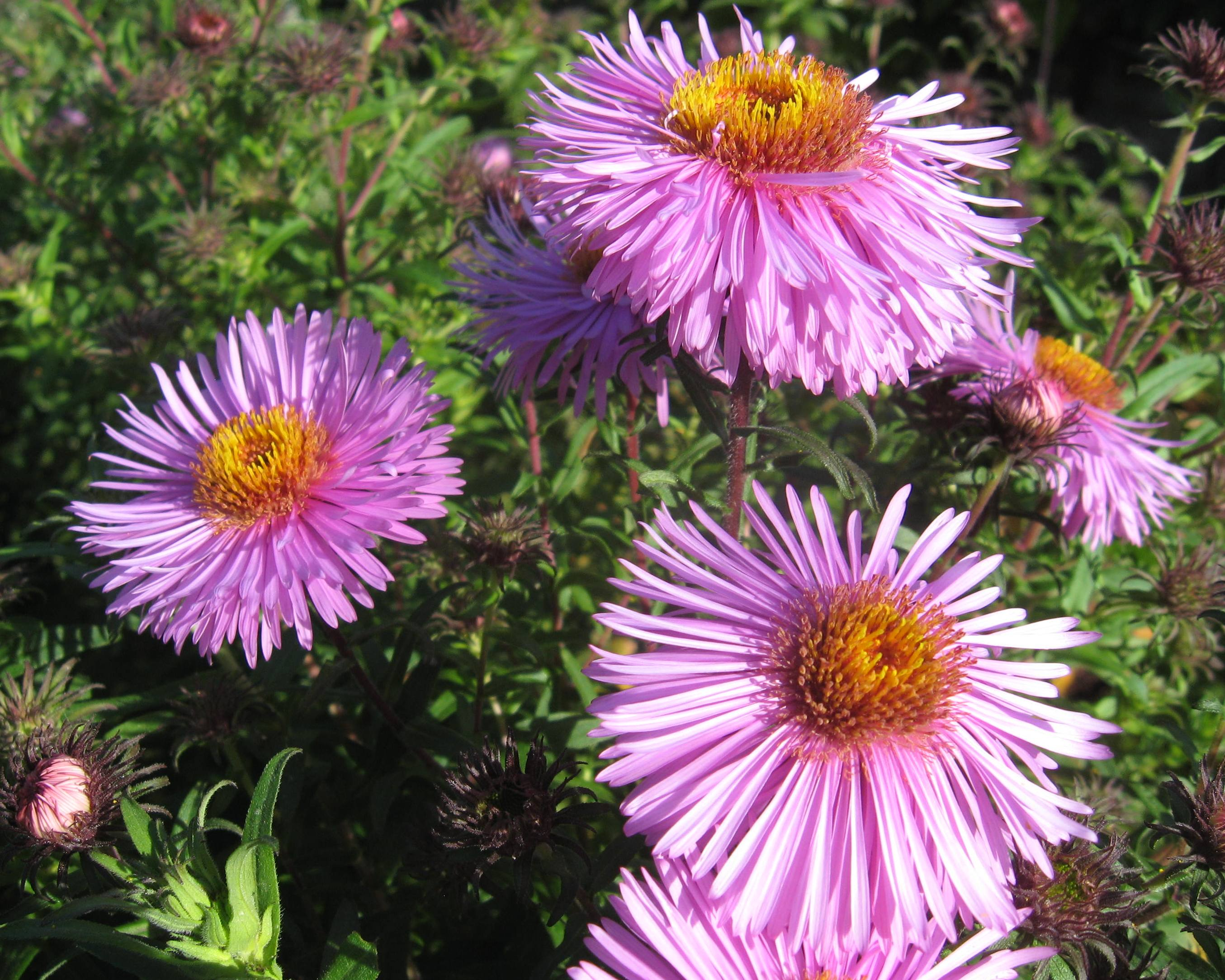 Photo taken in author's garden at Portchester, UK. Sept. 2012